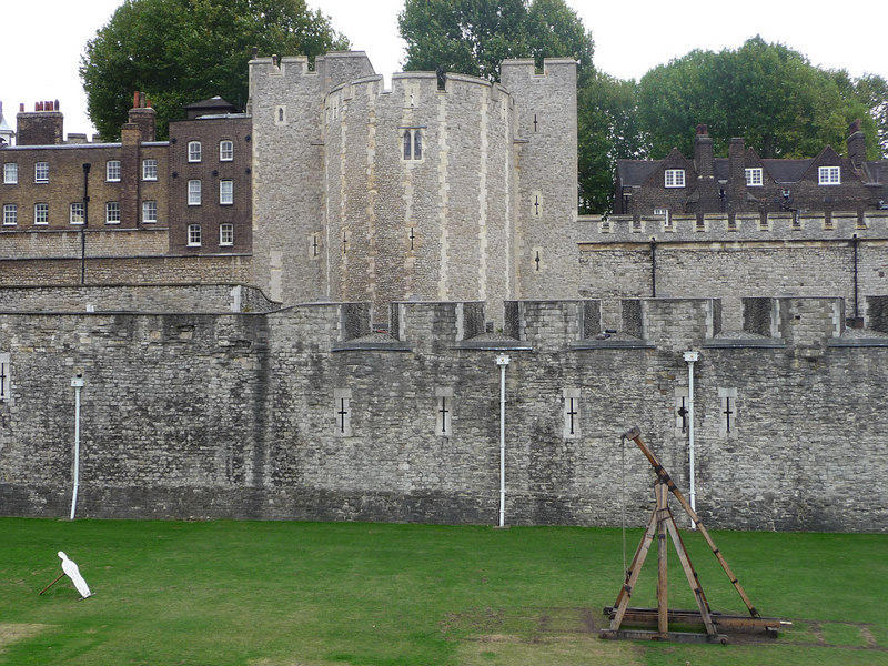 Tower of London, Beauchamp Tower